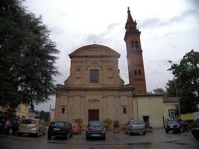 Parish Church of San Bernardino neighborhoodm, Crema, province of Cremona, Italy